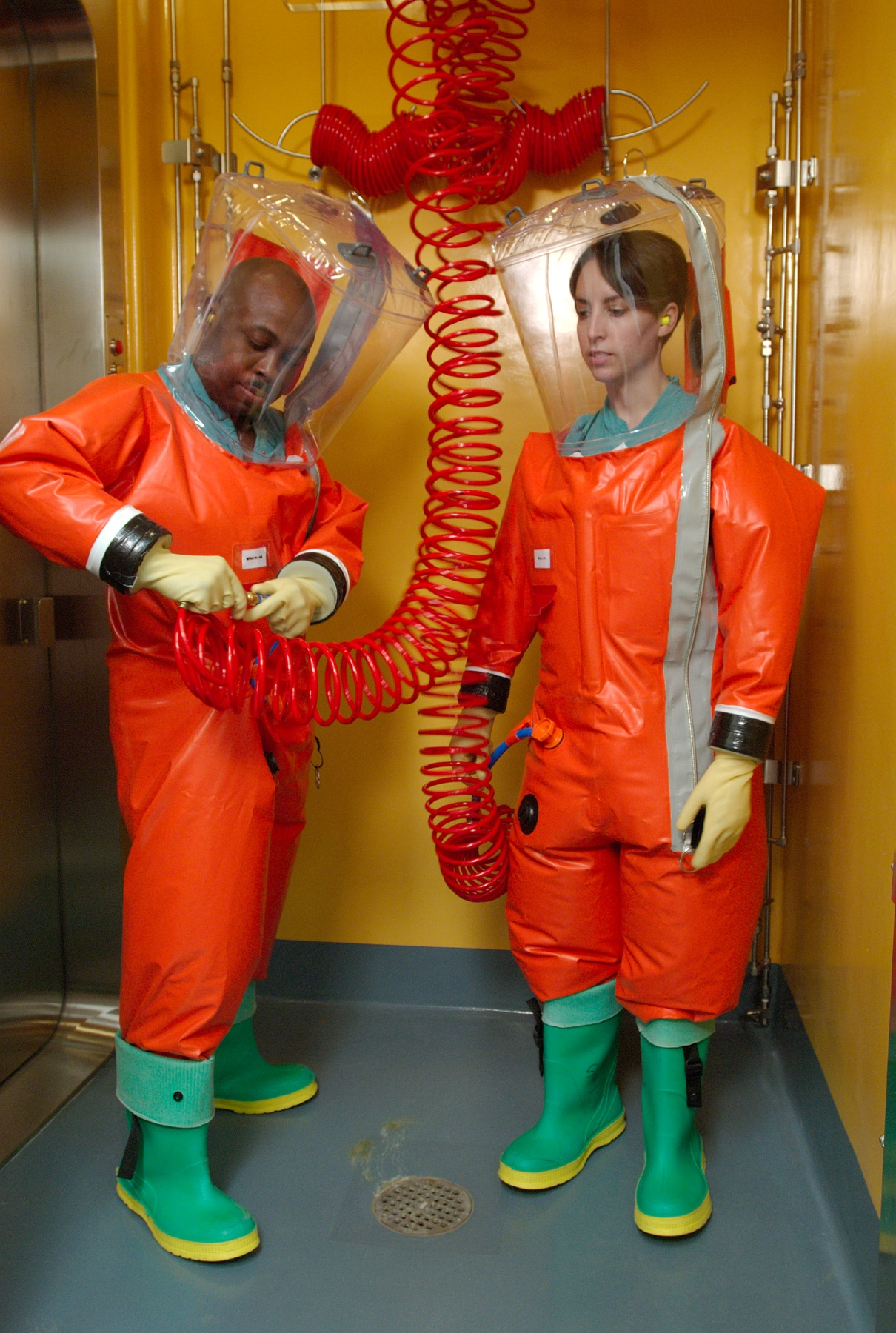 This 2007 image depicted Centers for Disease Control microbiologists as they were in the process of suiting up in order to access the interior of the organization’s Biosafety Level-4 (BSL-4) laboratory. The scientist on the left was attaching his supportive air hose, which would provide a supply of filtered, breathable air, as well as maintain positive air pressure inside his air tight orange suit. The Special Pathogens Branch works with BSL-4 viruses. These viruses are highly pathogenic and require handling in special laboratory facilities designed to contain them. The Special Pathogens Branch mission focuses mainly on viral hemorrhagic fevers (VHFs), such as Ebola hemorrhagic fever, Lassa fever, hantavirus pulmonary syndrome (HPS), and hemorrhagic fever with renal syndrome (HFRS). Our work also includes the study of other emerging viral disease agents that do not cause hemorrhagic fever, but require BSL-4 handling, such as Nipah virus and tick-borne encephalitis virus.